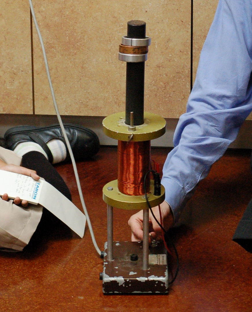 Electromagnetic induction makes metal rings levitate